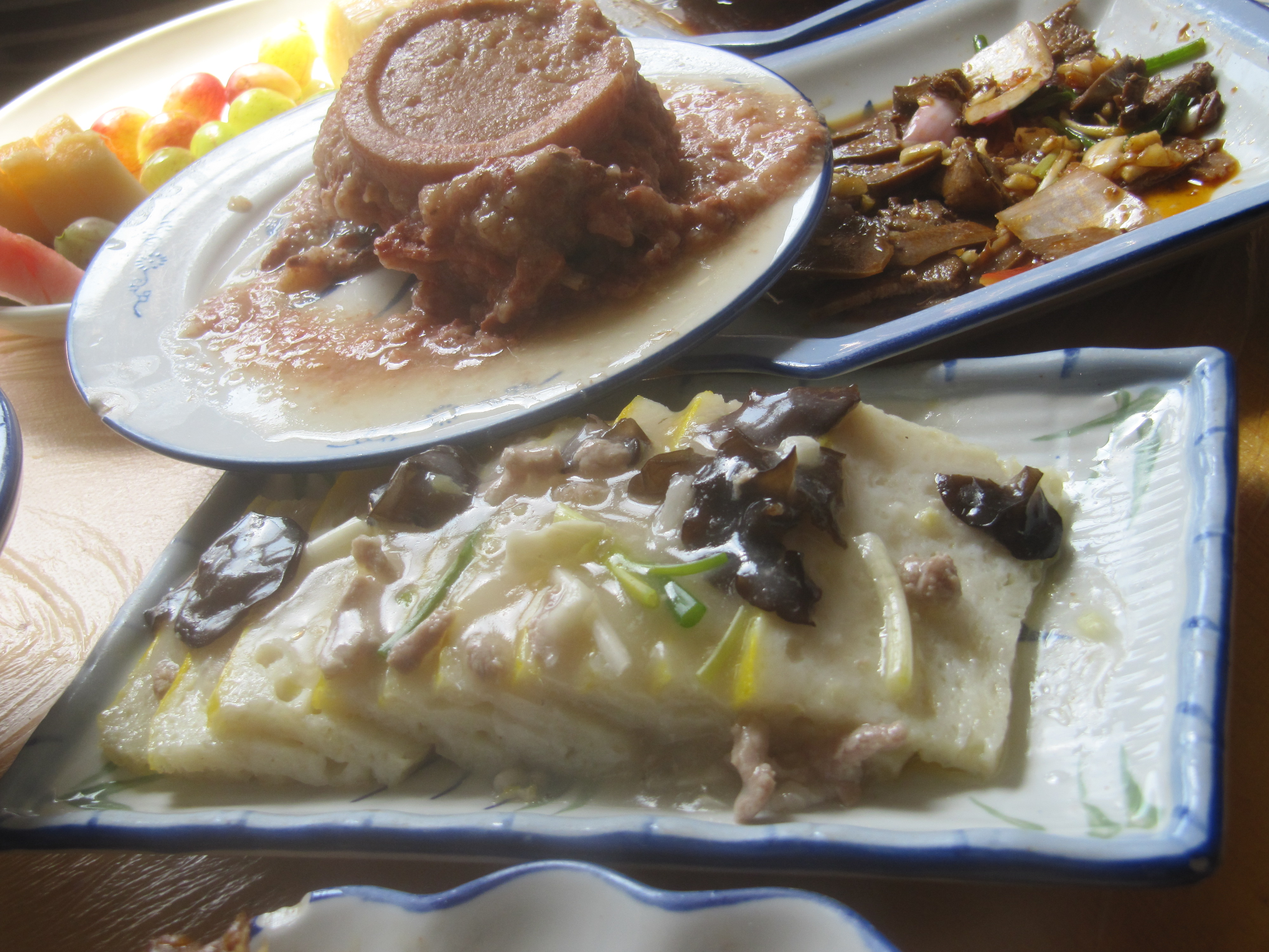 Hubei style of steam fish cake (鱼糕), the upper left dish is a style of steam pork and floor called (粉蒸肉 fěnzhēngròu) in Jingzhou, Hubei province, China.